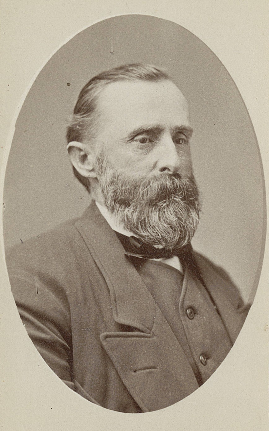 A. Milton Musser. Original size: 10×6cm.